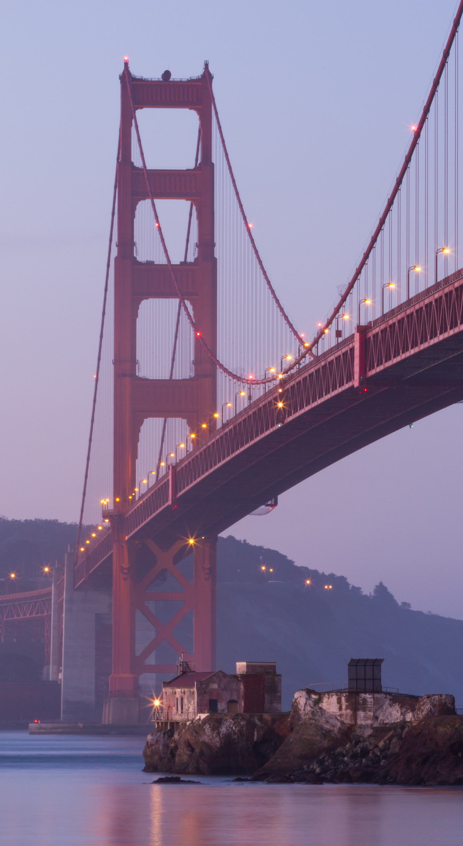 Lime Point Light, below the Golden Gate Bridge, California.